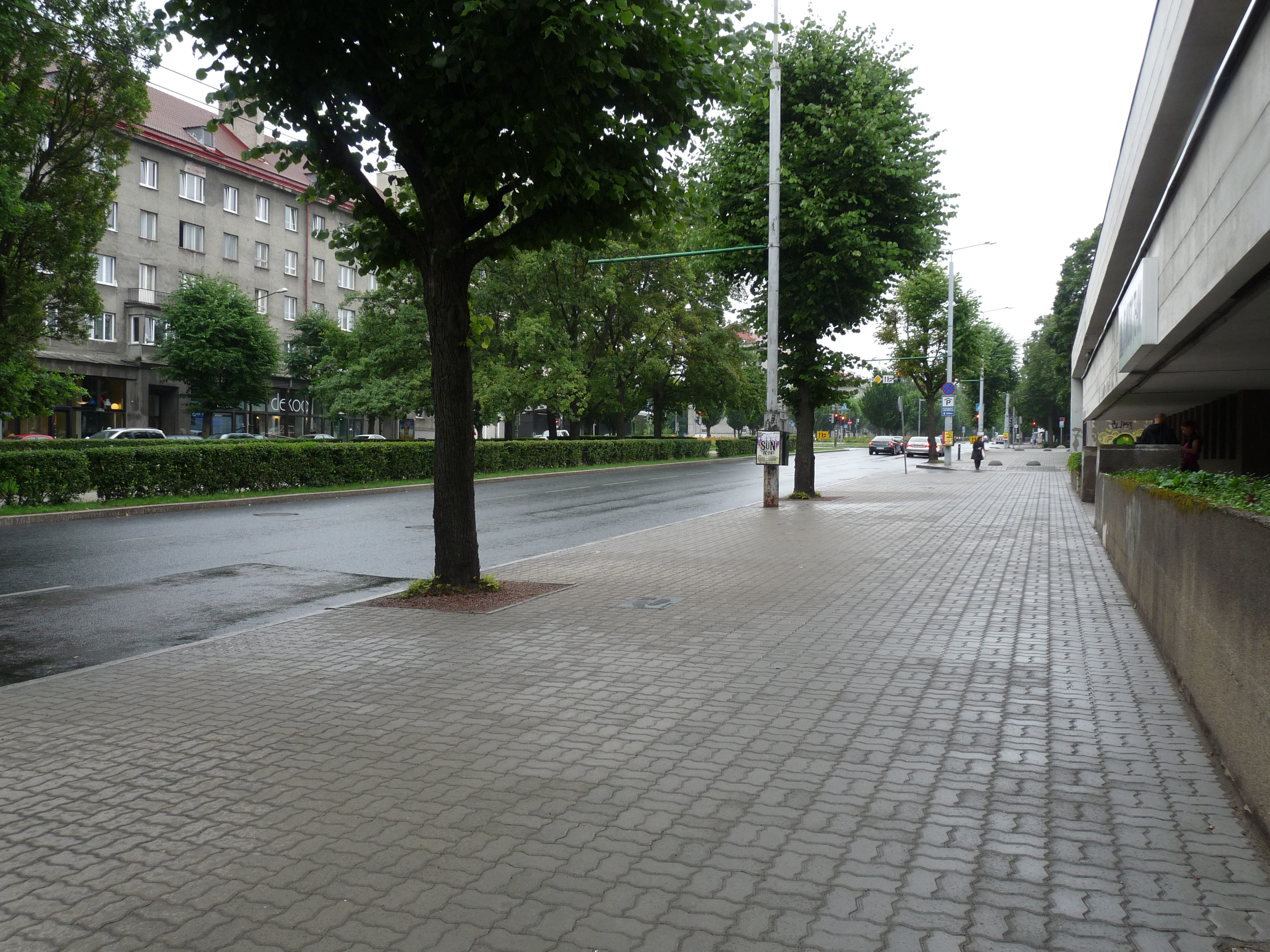 Rävala